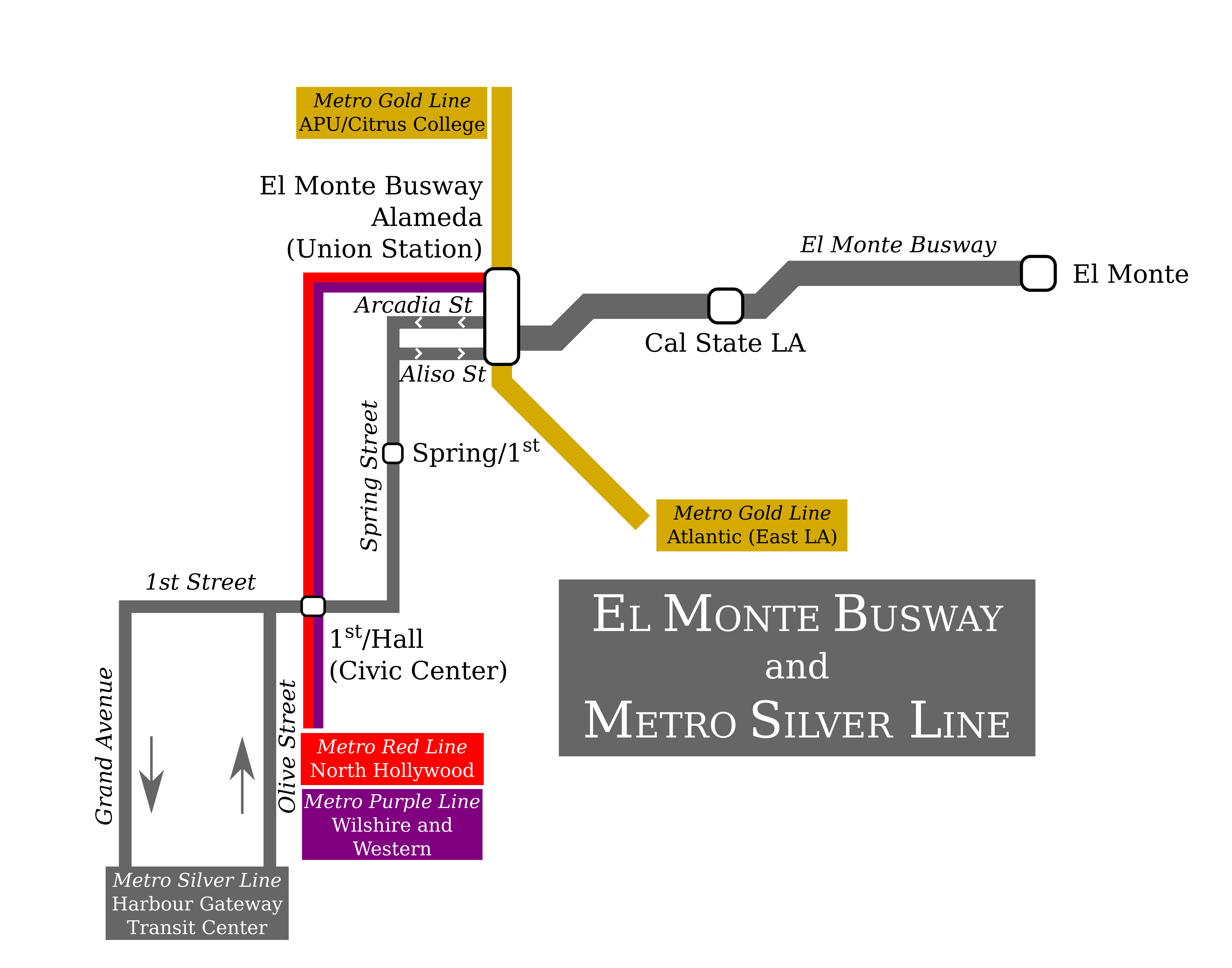 Map of the Los Angeles Metro Silver Line, based upon File:El Monte & Metro Silver Line Busway Map.pdf